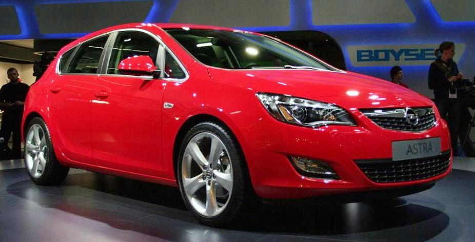 red Opel Astra MK4